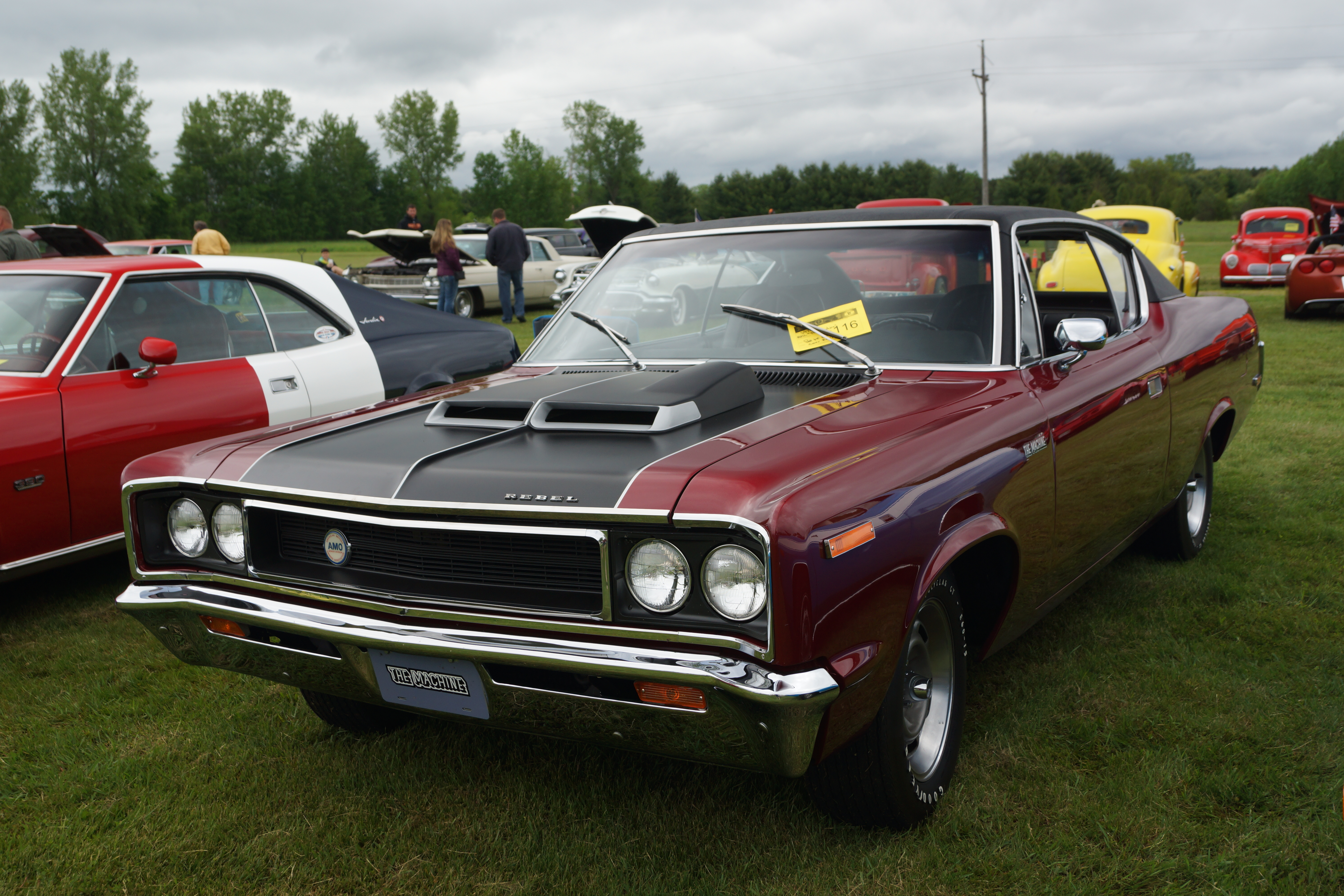 Studebaker Drivers Club North Star Chapter 43nd Annual 2017 Memorial Day Car Show Blacksmith Lounge Hugo, Minnesota Click here for more car pictures at my Flickr site. Or here for my Car Crazy Tumblr site. Or on Twitter @DVS1mn.